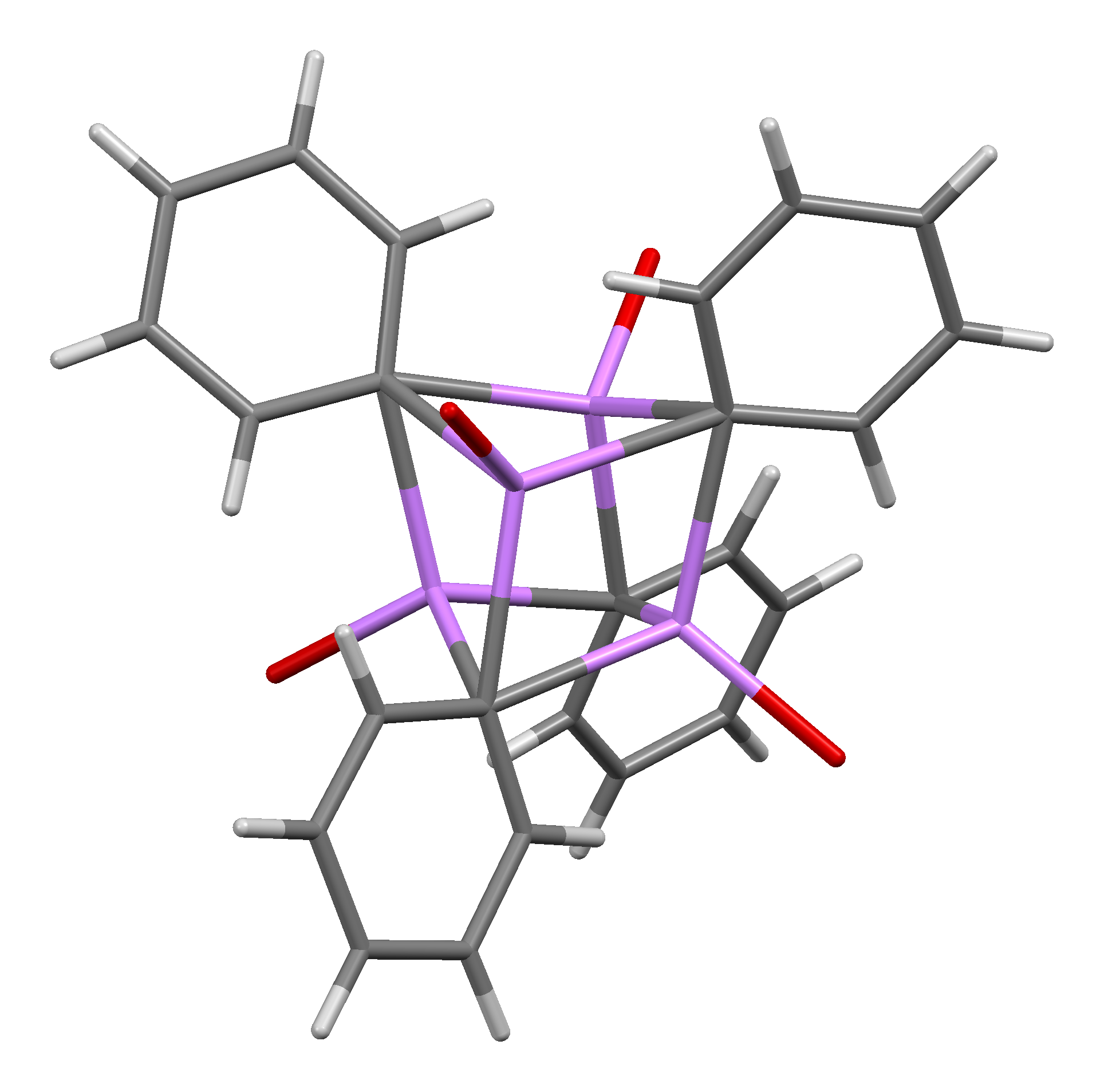 Stick model of the phenyllithium etherate tetramer, (PhLi·Et2O)4, as found in the crystal structure. The ethyl groups on the diethyl ether molecules have been omitted for clarity. Colour code: Carbon, C: grey Hydrogen, H: white Lithium, Li: lilac Oxygen, O: red Structure (determined by X-ray diffraction) from J. Am. Chem. Soc. (1983) 105, 5320–5324 (CALKOP). Model manipulated and image generated in CCDC Mercury 2.4.